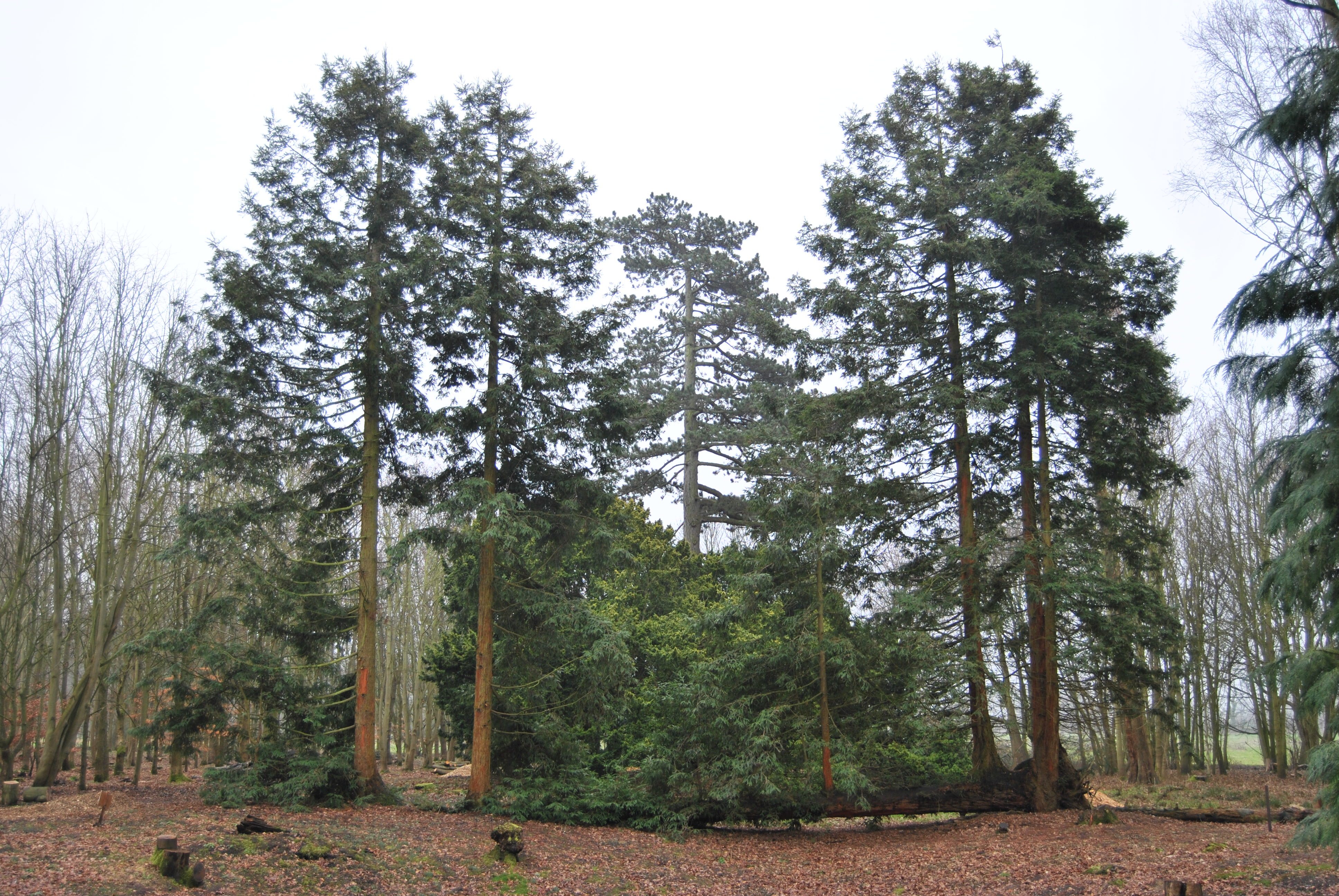 A photo of the fallen Sequoia at Bank Hall in Bretherton, Lancashire. One of only two known specimens that have fallen and continued to grow in this style in the UK.